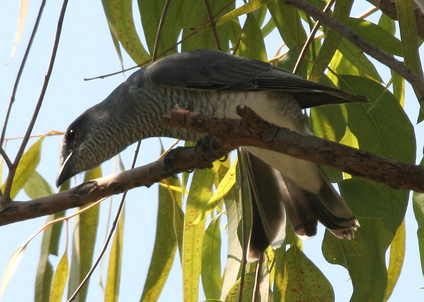 Large Cuckooshrike Coracina macei - Hindi: Kasya, Sans: Bruhat krushnaka, U.P: Khaki papiya, M.P: Bahram, Ben: Kabasi, Lepcha: Talling-pho, Guj: Moto kasio, Mar: Motha kuhuva, Te: Pedda akurai, Kan:Kogile kalinga- in Manjira Wildlife Sanctuary, Andhra Pradesh, India.